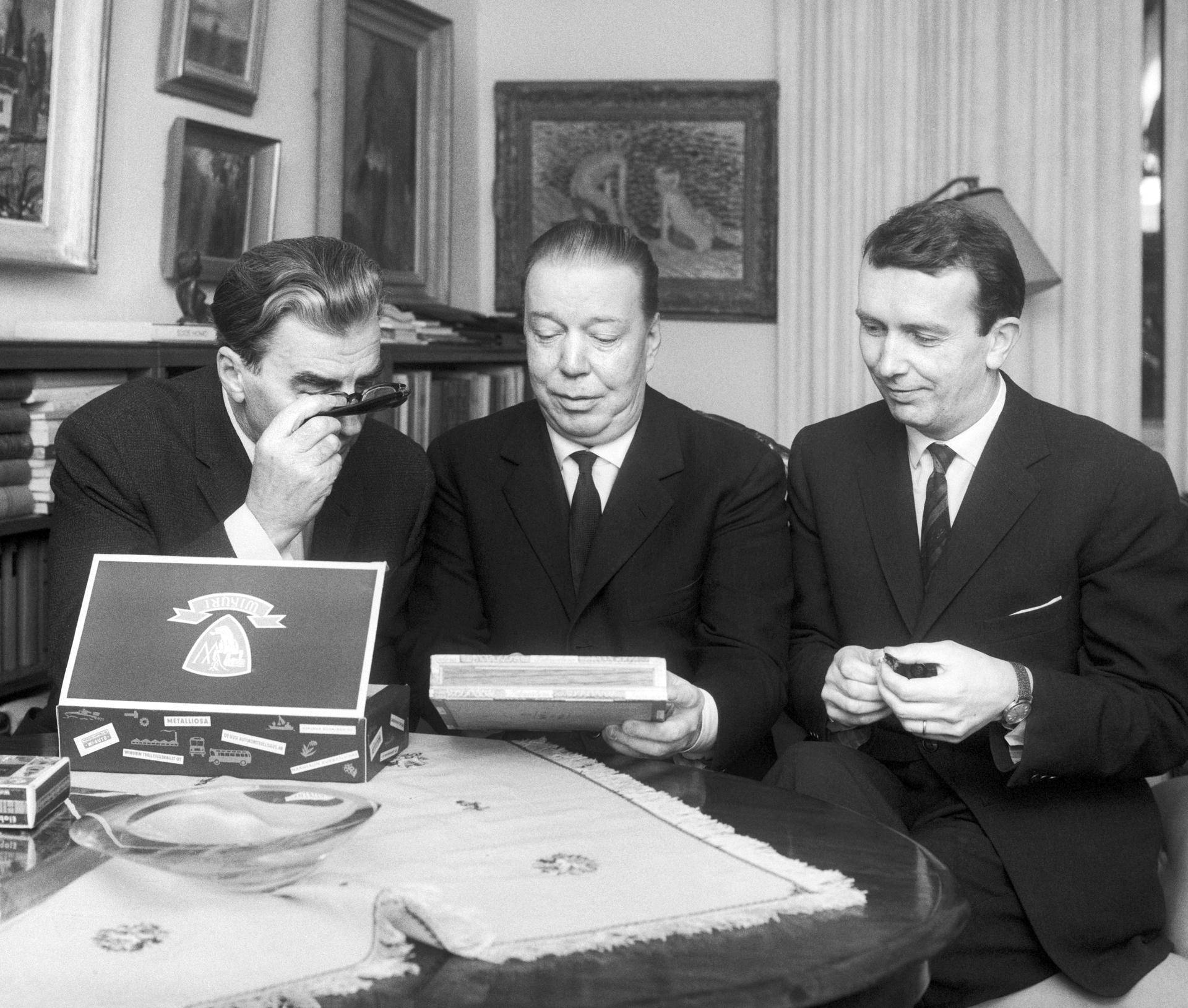 Photograph of the Finnish actor Joel Rinne, writer Mika Waltari, and filmmaker Matti Kassila.